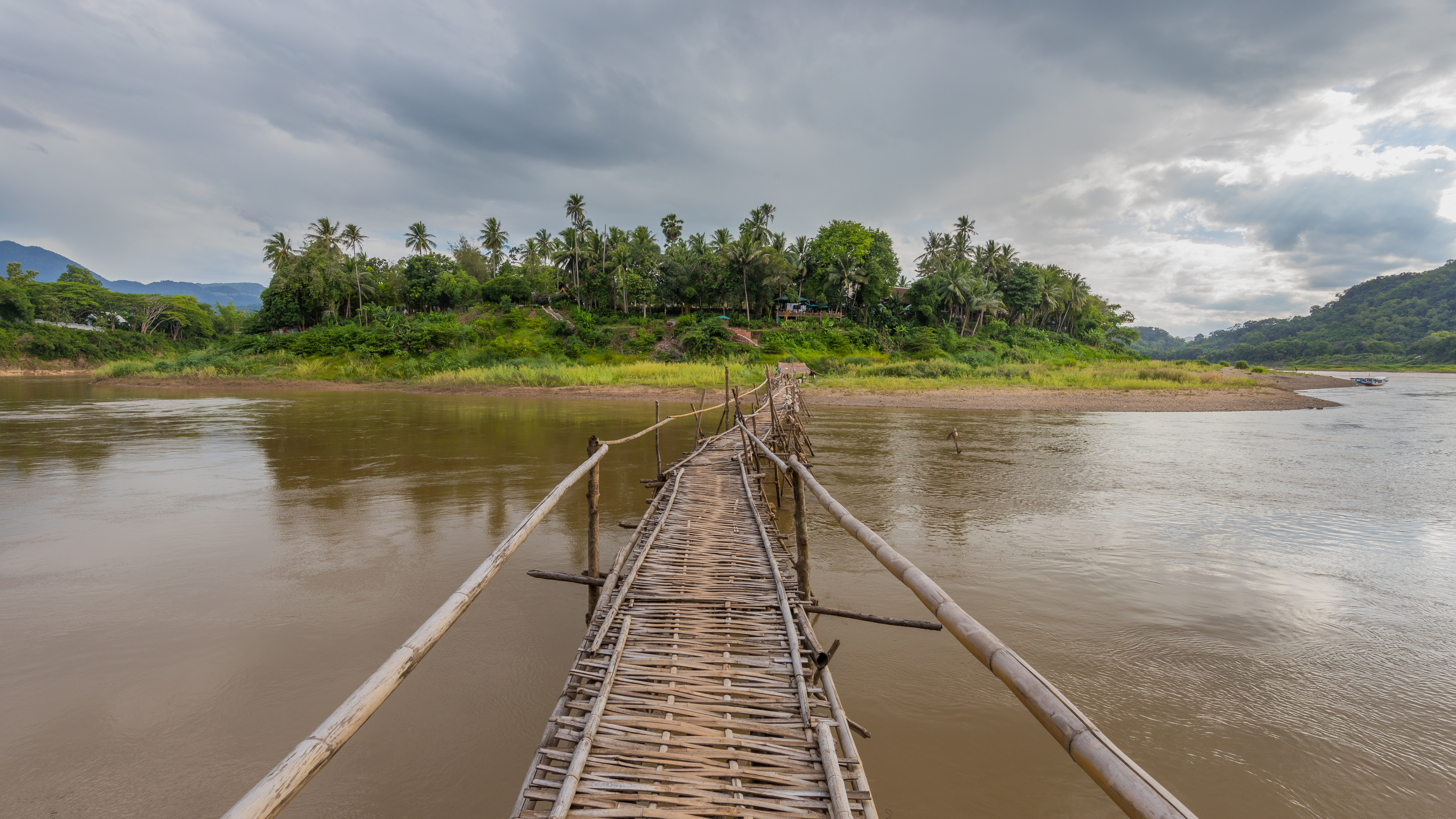 Front view of a wooden footbridge over the Nam Khan river, leading to the city of Luang Prabang, Laos, during the monsoon